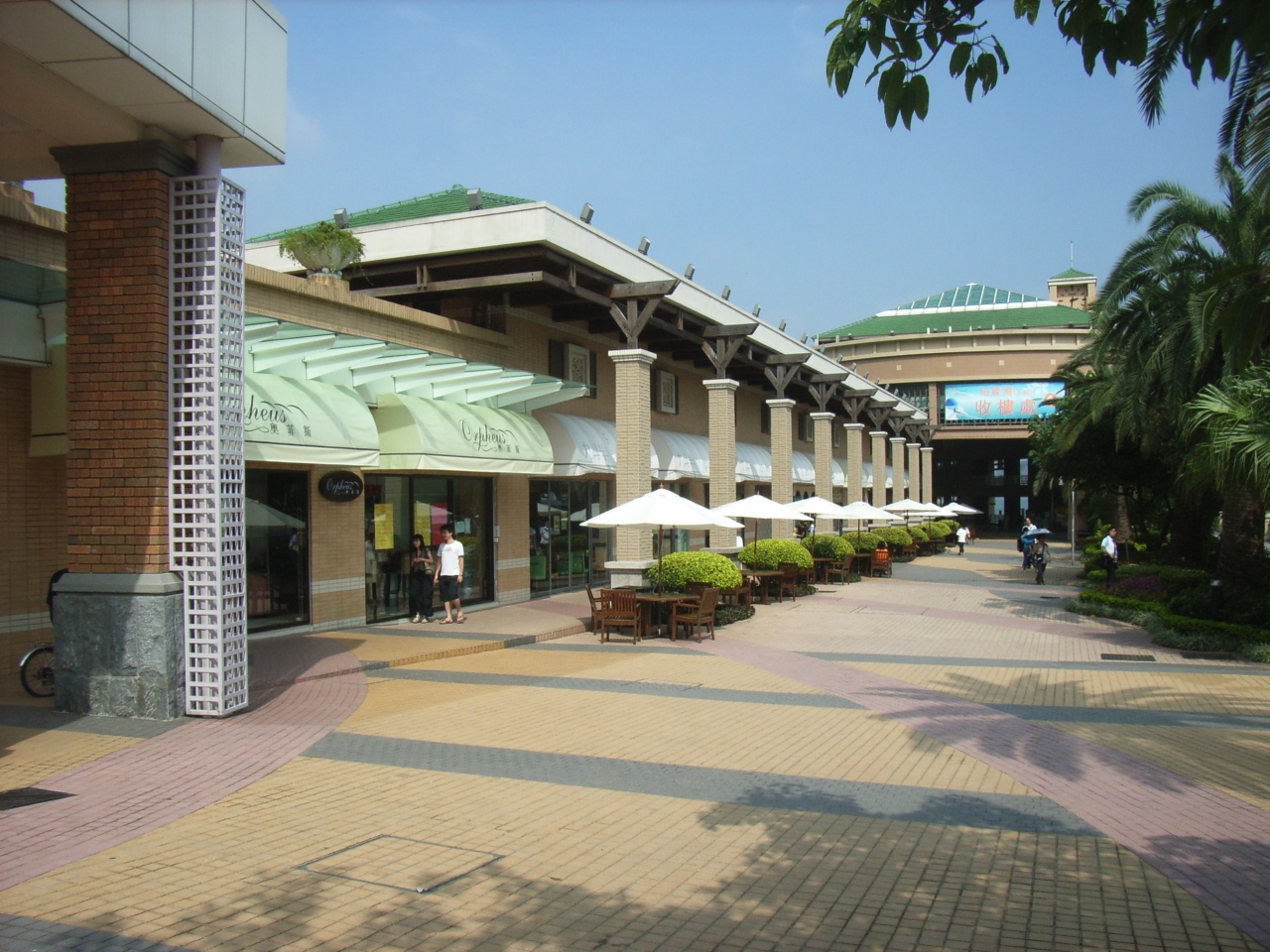 珀麗灣商場 (Island Mall)